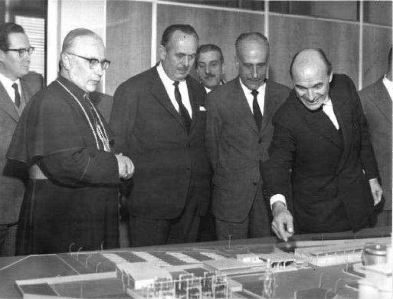 The Italian businessman Carlo Pesenti (1907-1984) in the 1950s showing his factories for the producion of concrete to politicians and an archbishop